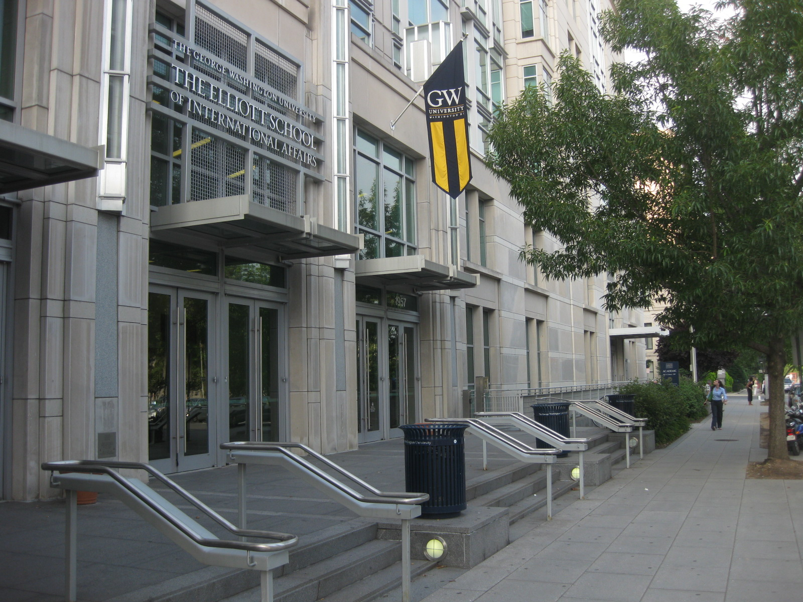 The entrance to the Elliott School.